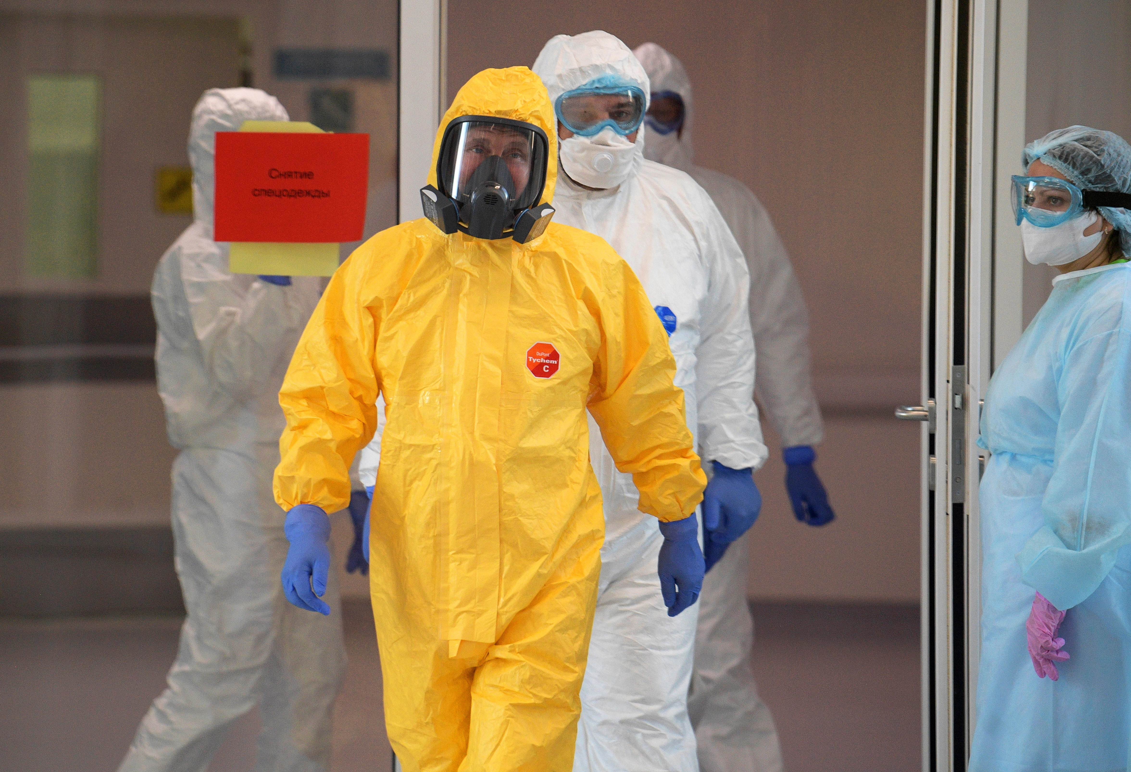 Vladimir Putin examined a hospital in the Moscow village of Kommunarka for patients with suspected coronavirus infection.